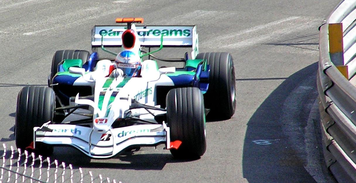 Jenson Button driving for Honda F1 at the 2008 Monaco Grand Prix.